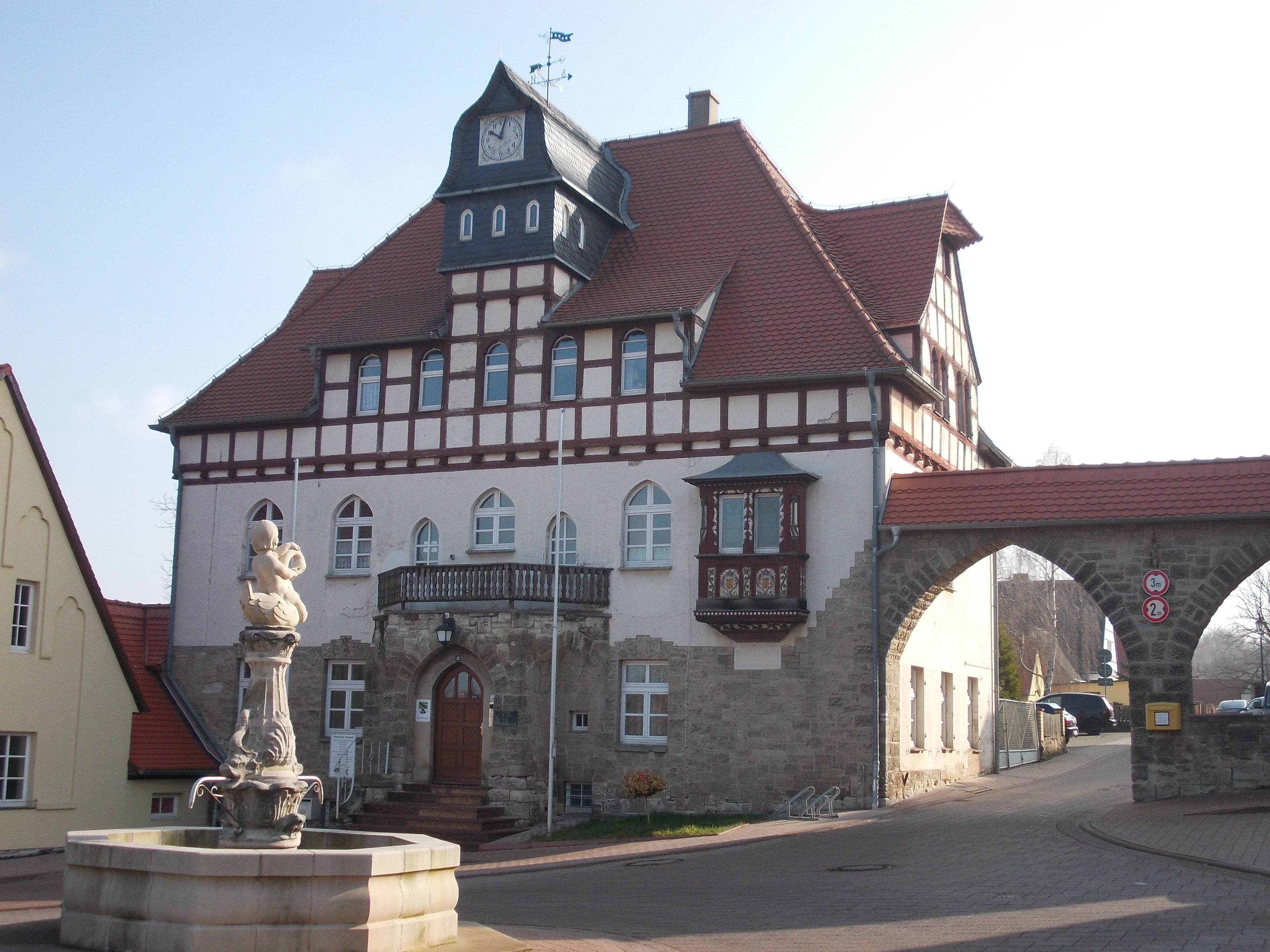 Salzmünde town hall (Salzatal, district: Saalekreis, Saxony-Anhalt)